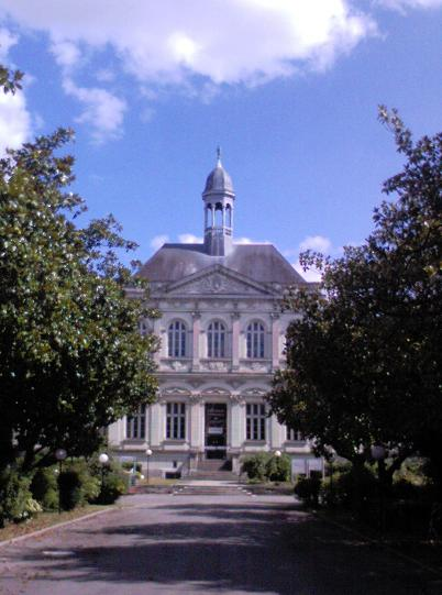 Catholic University of the West, Angers